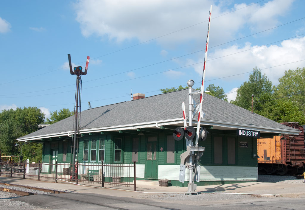 Photo from the South West of the former Erie Depot located at Industry, NY. See Rochester & Genesee Valley Railroad Museum.